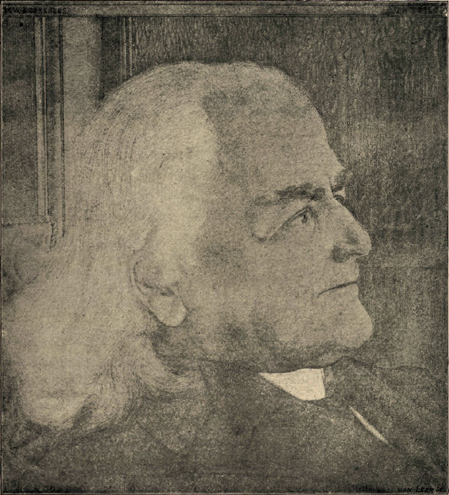 Portrait of Dr. Doorenbos